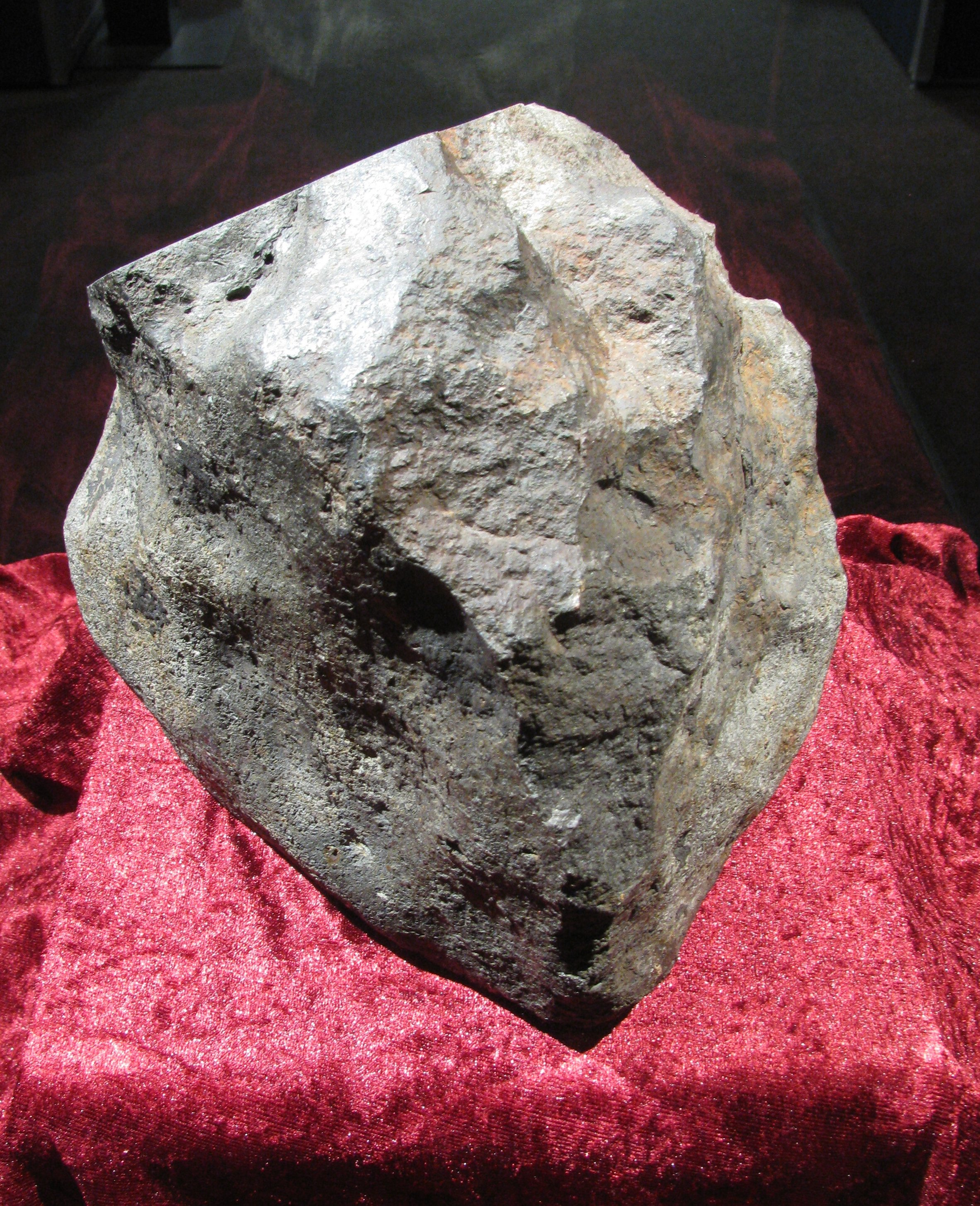 Benthullen meteorite, L6. Found near Benthullen (which is near to the city of Oldenburg, Lower Saxony, Germany. Four different perspectives. It is the biggest stone meteorite found in Germany.